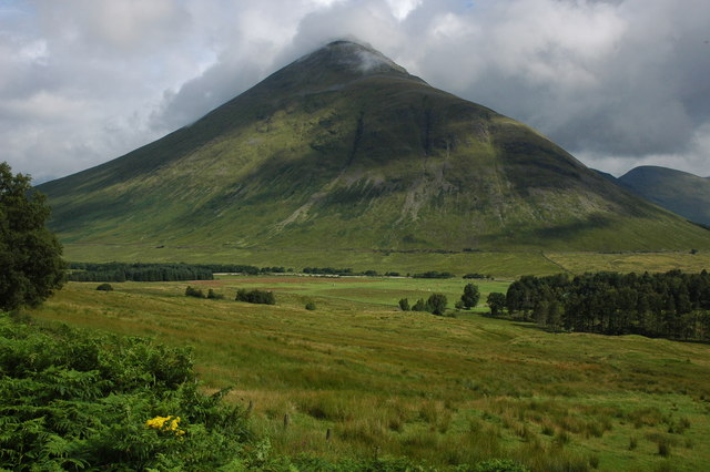 Beinn Dorain viewed from the south Beinn Dorain viewed from the south on the A82.